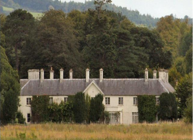 Kenmare House re-moddled 1910's